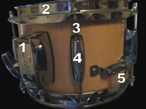 I took this picture of snare drum parts myself.